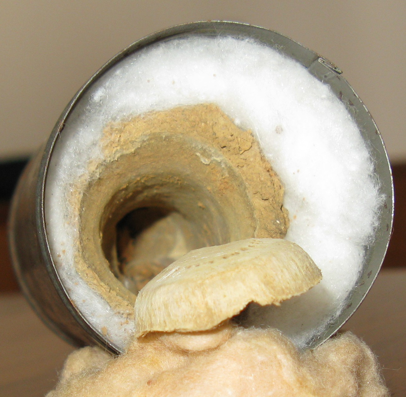 Ctenizidae, probable genus: Stasimopus. Cork-lid Trapdoor spider burrow saved intact in baking powder tin ca late 19th century